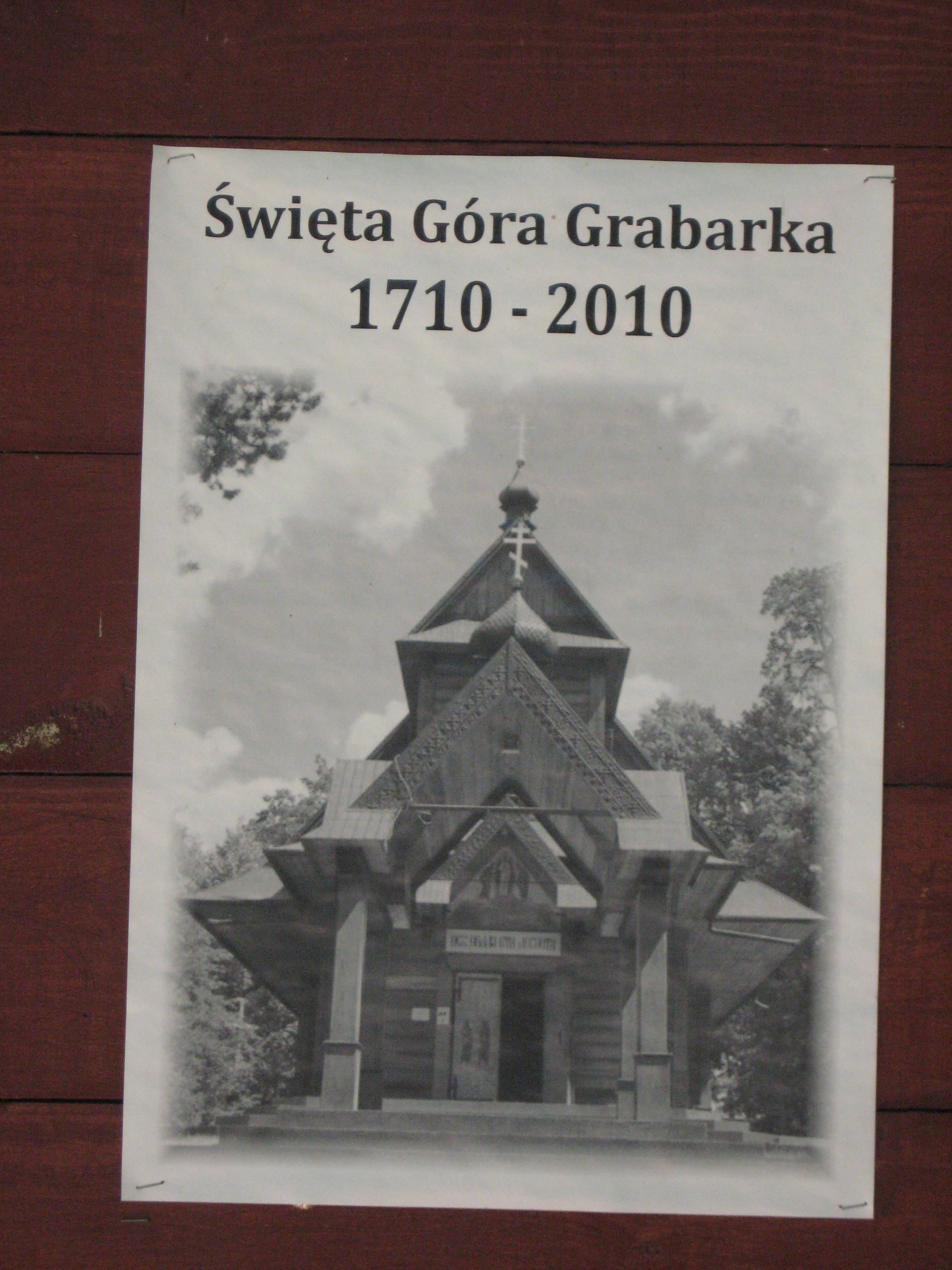 330 years of Grabarka